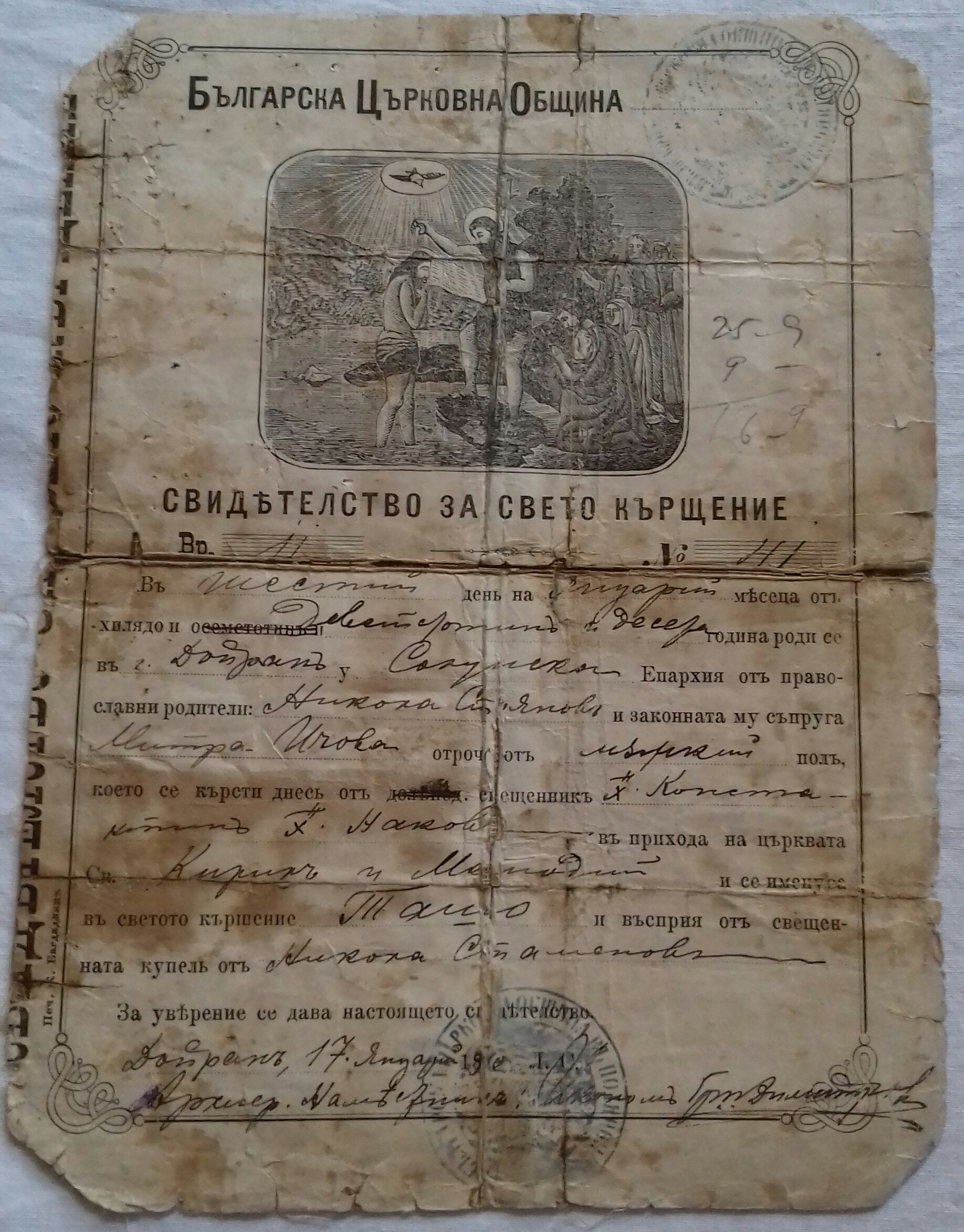 Baptism Certificate from Doyran Exarchate eparchy